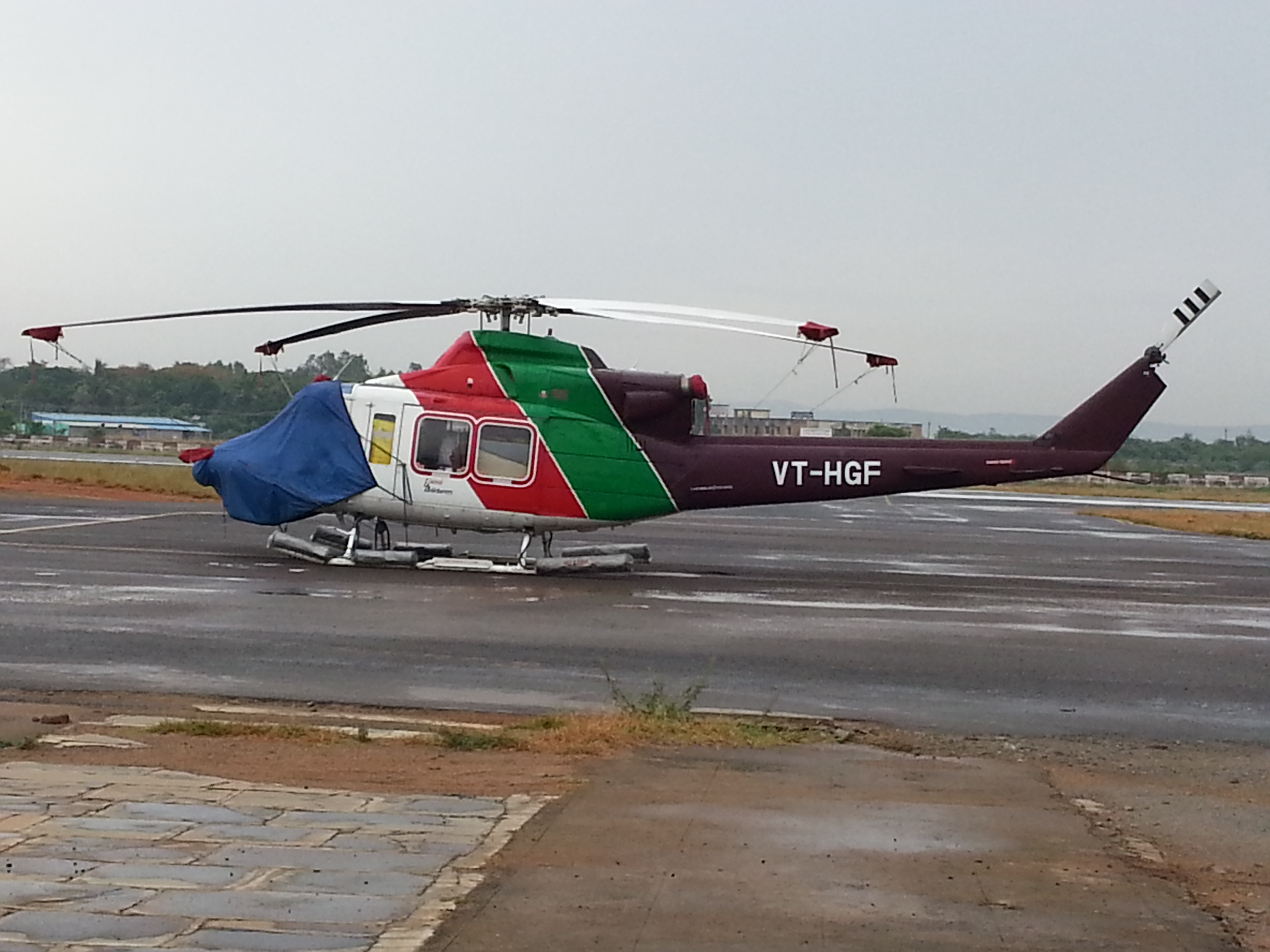 Helicopter stationed on ground at Gannavaram (Vijayawada) Airport.